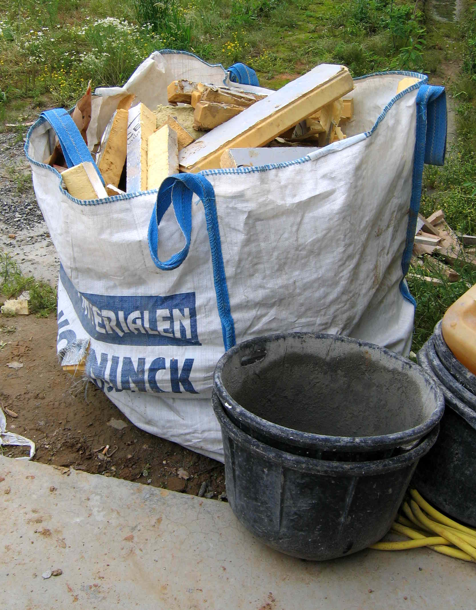 A bag of cut polyurethane blocks that have been cut up and can no longer be used. As can be clearly seen, this kind of insulator is wasteful, and as such, extra expensive. A more suitable alternative could be compressed straw as insulator, or other alternatives.